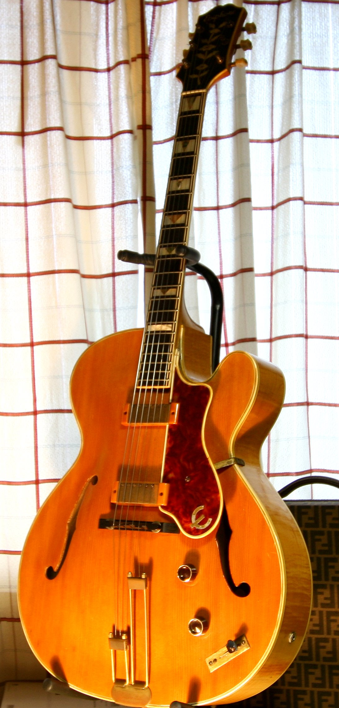 Epiphone Zephyr Deluxe 1951 17 3/8" wide, maple back and sides, 3 ply binding on top and back, single bound fingerboard, bound peghead, gold plated parts. Bigin 1931 ~ Discontinued 1970.